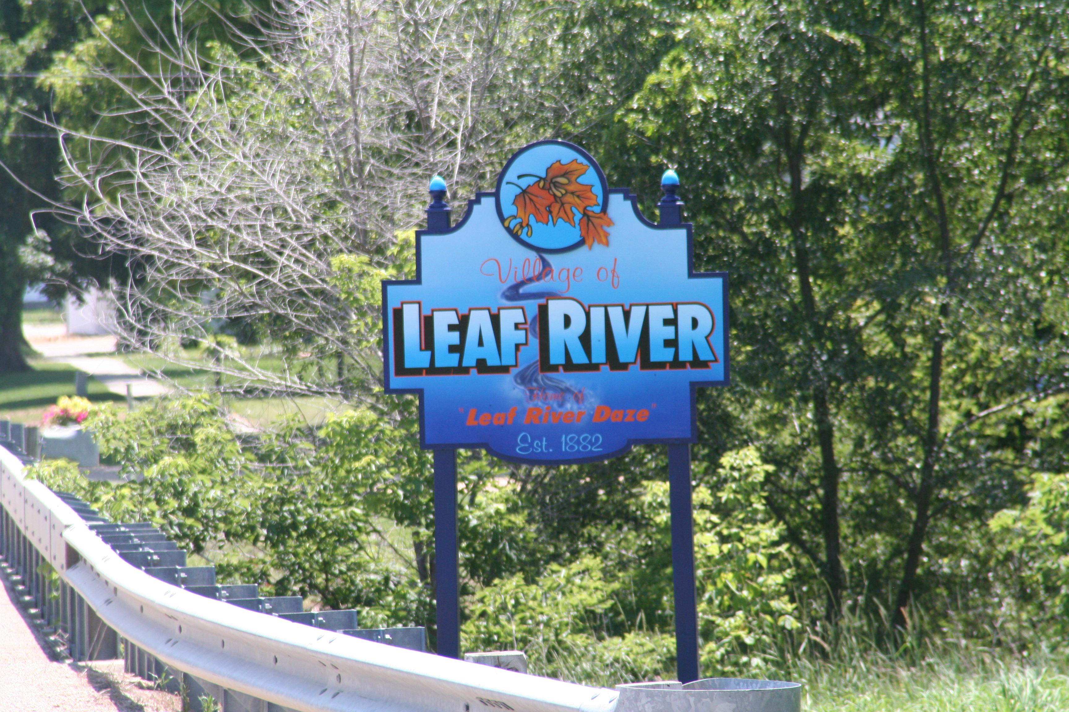 Picture of the sign you see entering into Leaf River, Illinois, USA from the north.